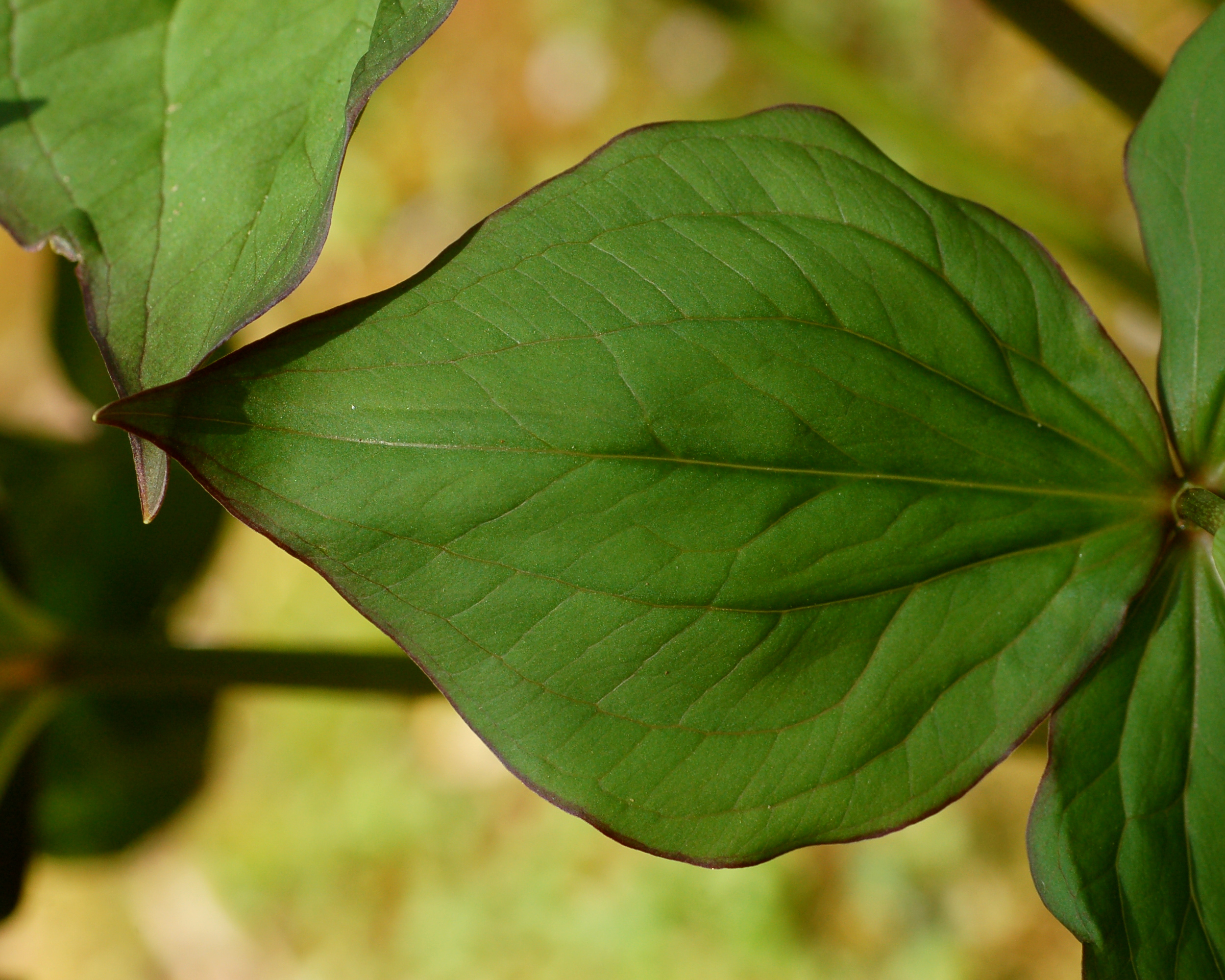 Photograph of a leaf of the White Trilliumen (Trillium grandiflorum en ). Photo taken at the Mt. Cuba Center where it was identified.